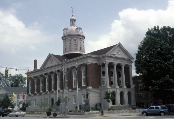 Jefferson County, Indiana Courthouse. Built 1854-1855